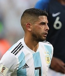 2018 FIFA World Cup Match 50, France v Argentina